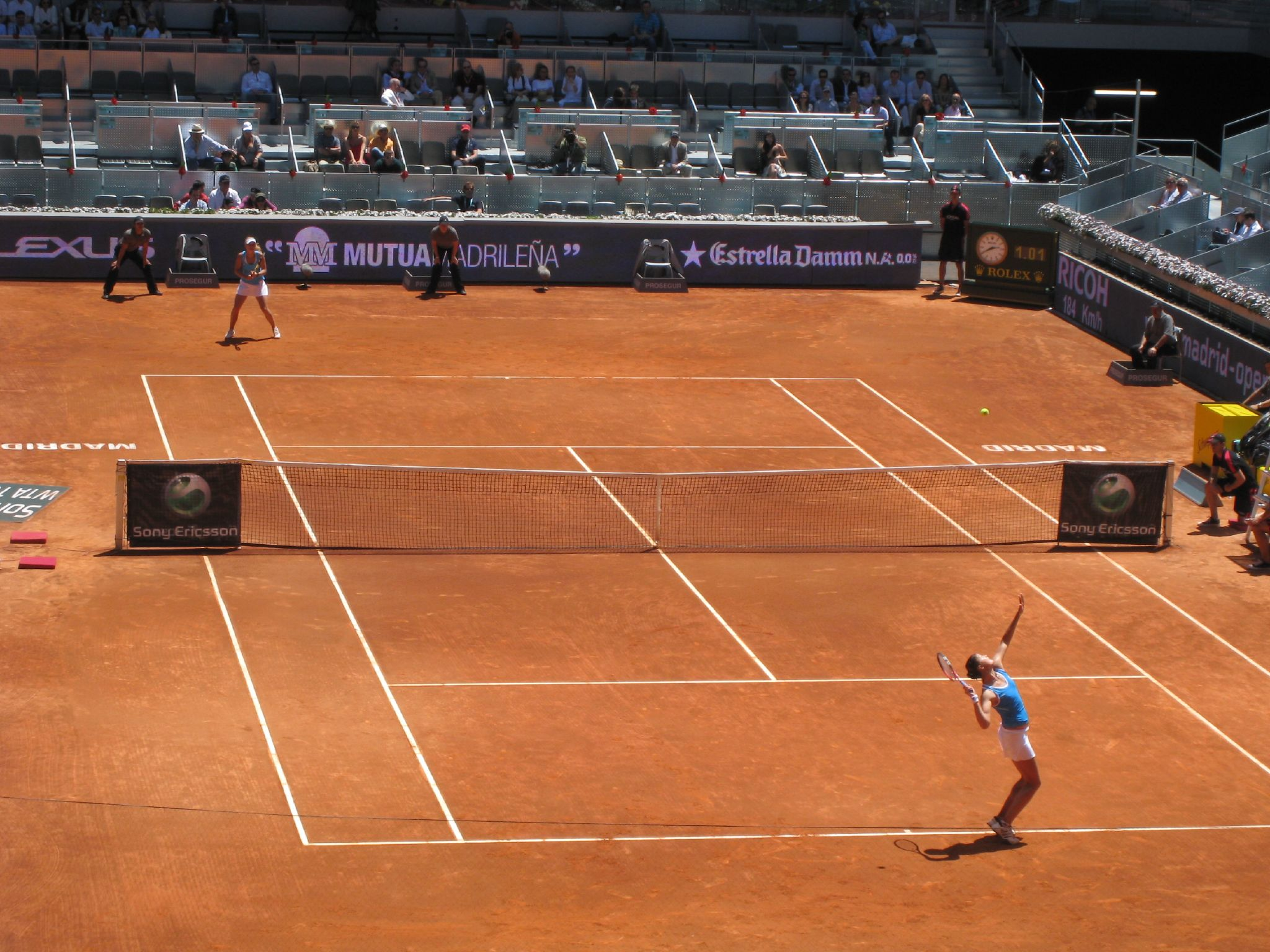 Safina and Wozniacki at Women's Final (10)